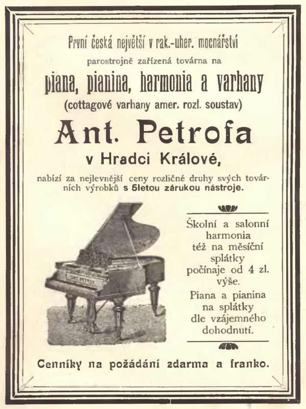 Advertisement of Czech piano manufacturer Antonín Petrof in Calendar of Zlatá Praha on year 1895